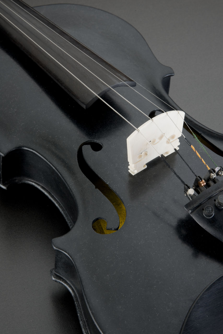 Black/w photo of The Blackbird, The Black Stone Violin. A full-size playable stone violin made by the swedish Sculptor Lars Widenfalk